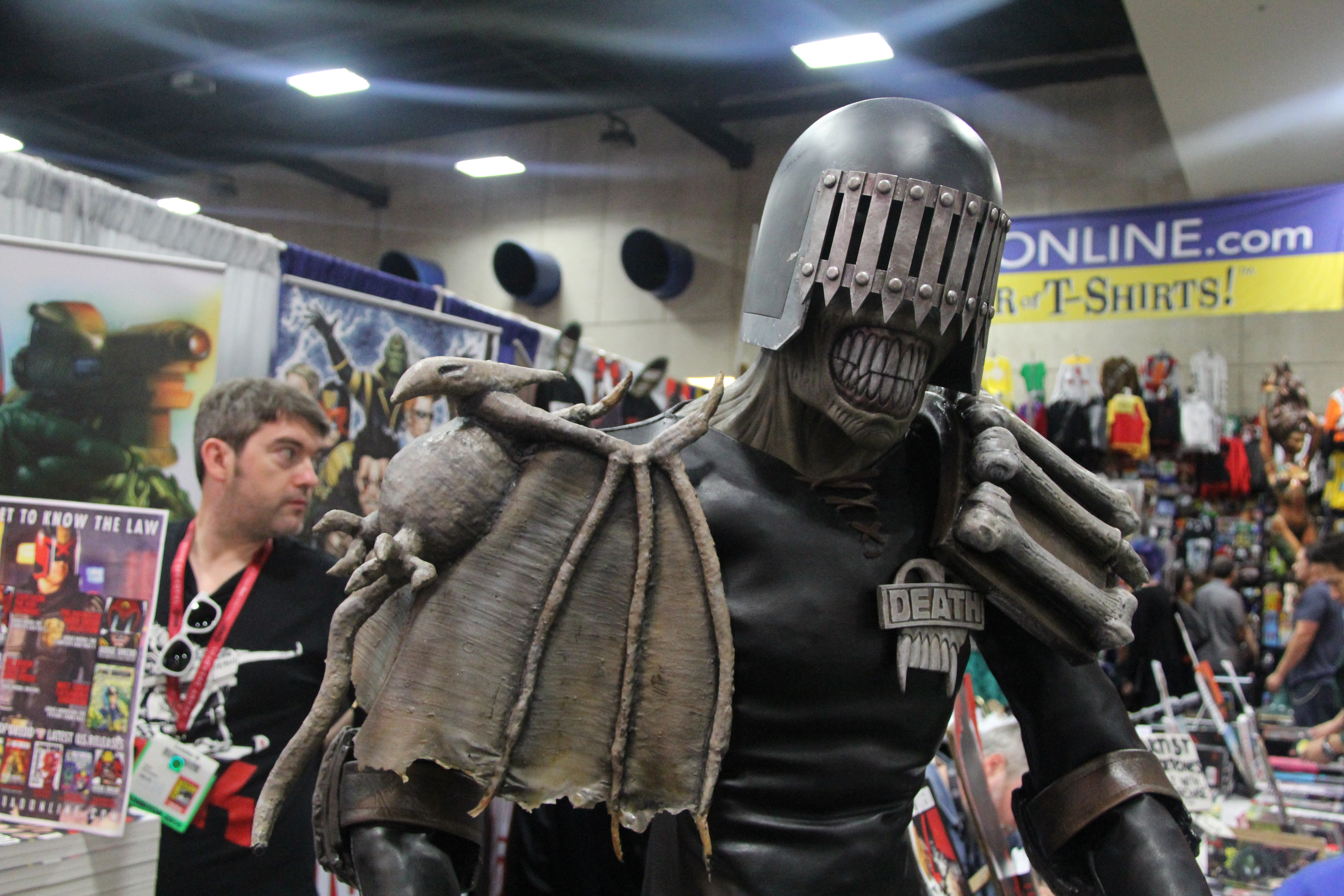 IMG_0513 Cosplay at San Diego Comic-Con (SDCC 2014).